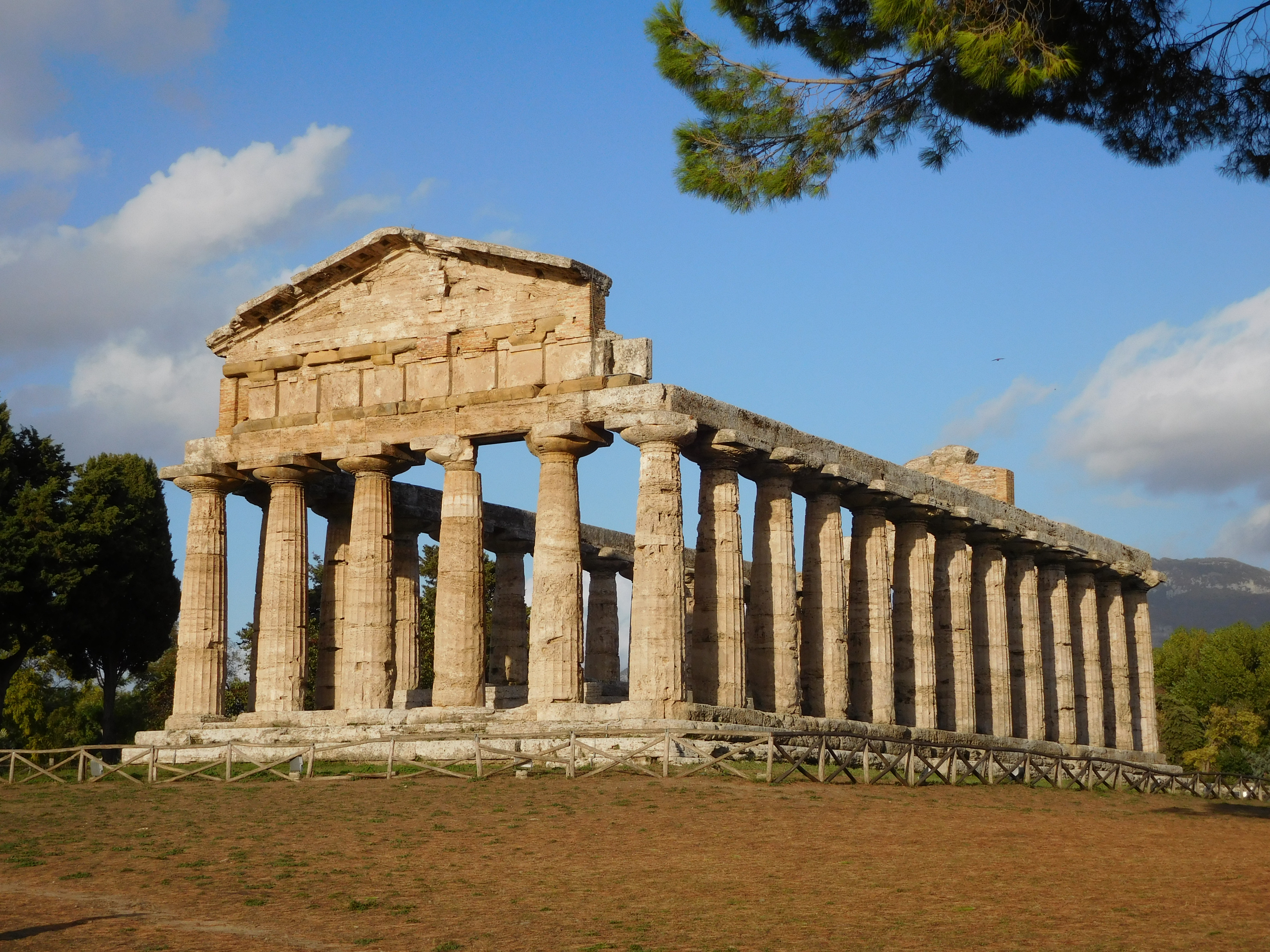 Temple of Athena (Paestum) This is a photo of a monument which is part of cultural heritage of Italy.